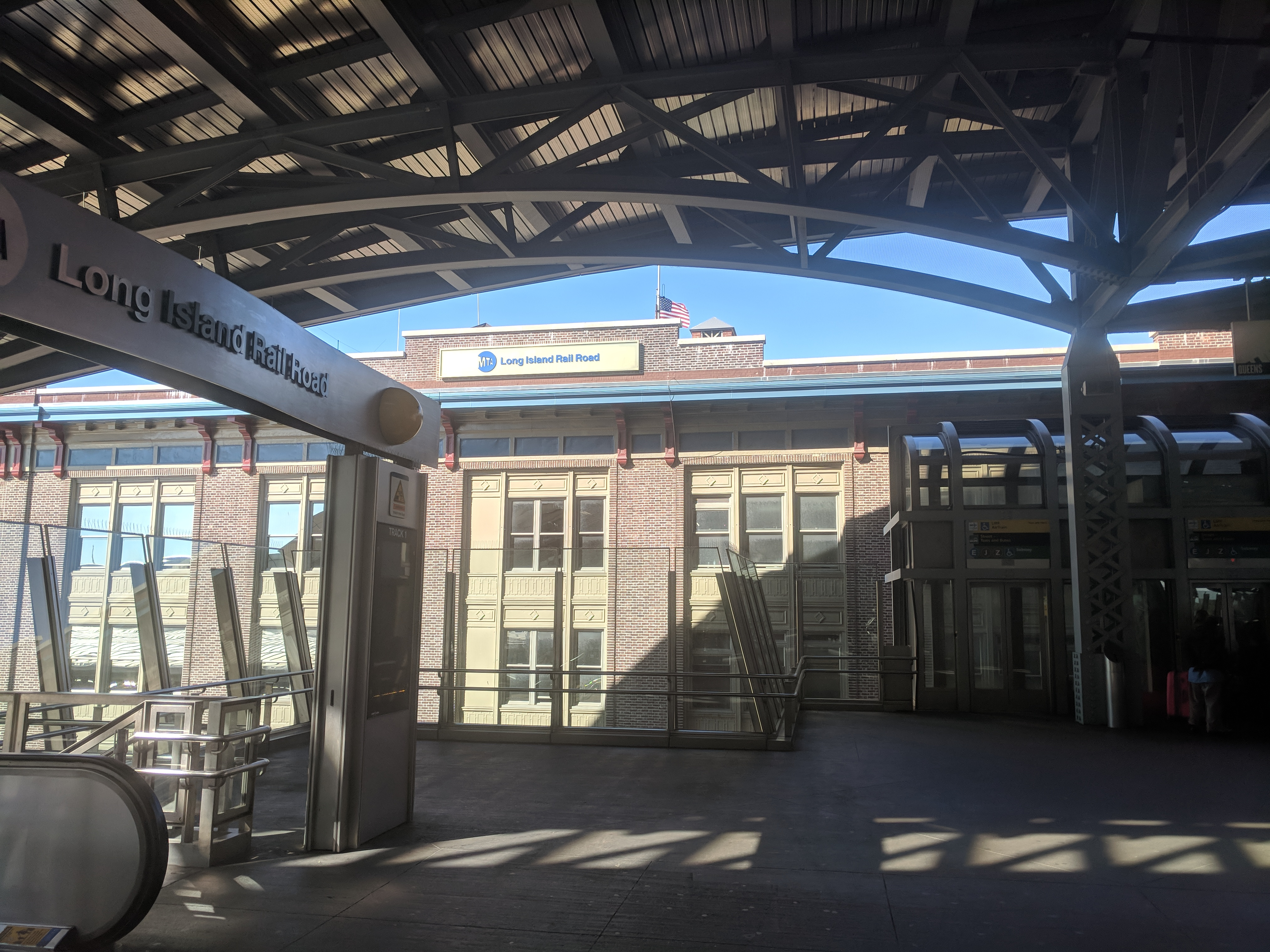 Ticket office on ground floor, operations bldg